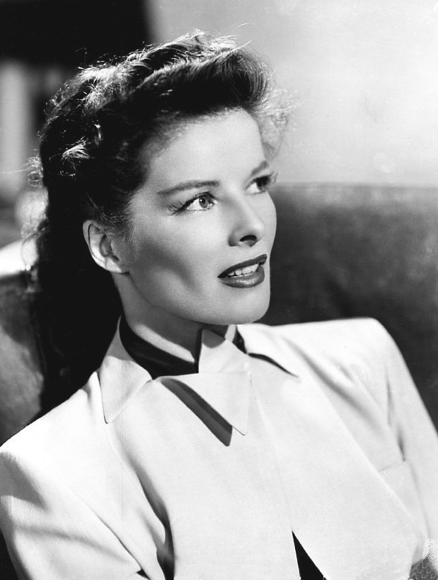 Publicity photo of Katharine Hepburn